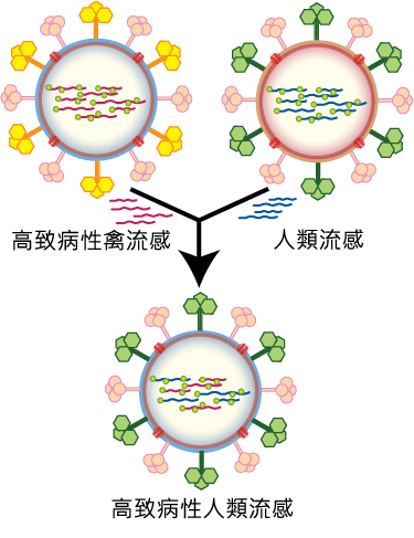 Overview of how different influenza strains can recombine to form completely new strains with characteristics of both. This process is called genetic shift.